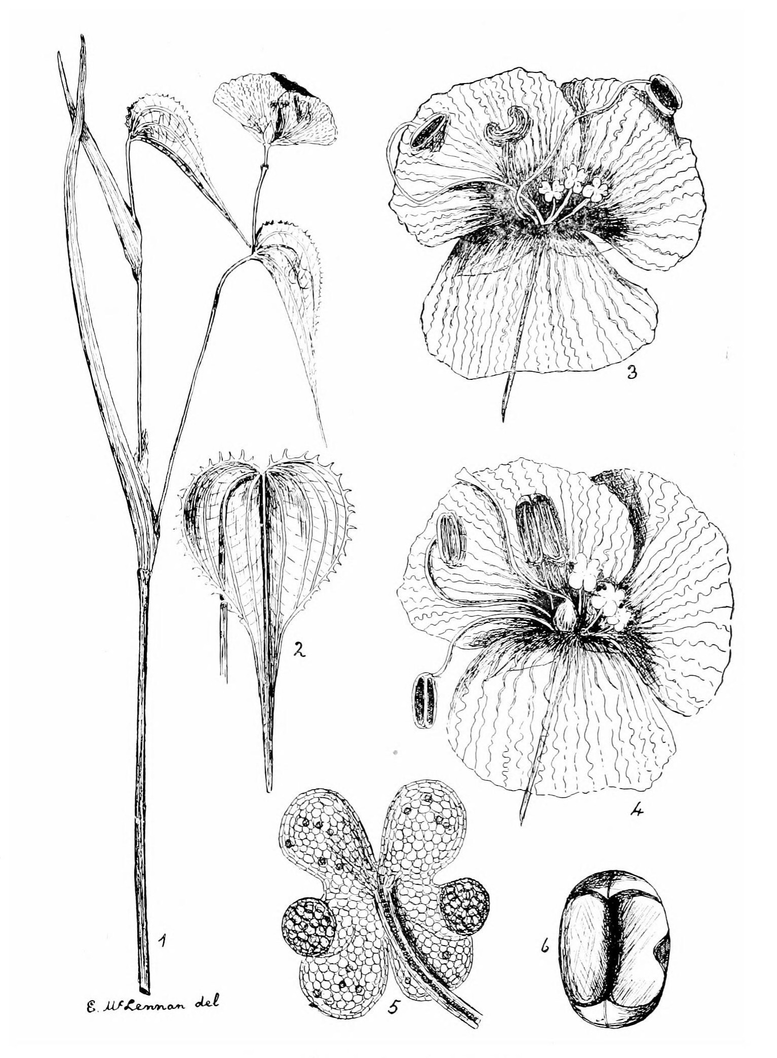 Commelina ciliata syn. C. acuminata Title: The flora of the Northern Territory Year: 1917 (1910s) Authors: Ewart, Alfred J. (Alfred James); Davies, Olive Blanch; Cheel, Edwin, 1872-; Hamilton, Arthur Andrew, 1855-1929; Maiden, J. H. (Joseph Henry), 1859-1925 Subjects: Botany Publisher: Melbourne, McCarron, Bird & Co. , Printers Text Appearing Before Image: THE FLORA OF THE NOBTHBBN TEE&ITOEY. 367 Text Appearing After Image: ^ jJif J^JLyn/if\.t^J^ Plate VII.—Commelina aotjminata. Pig. 1, Inflorescence. 2, Spathe. 3, Male flower. 4, Hermaphrodite flower 5, One of the three partly sterile anthers. 6, Seed. (5 and 6 magnified.)